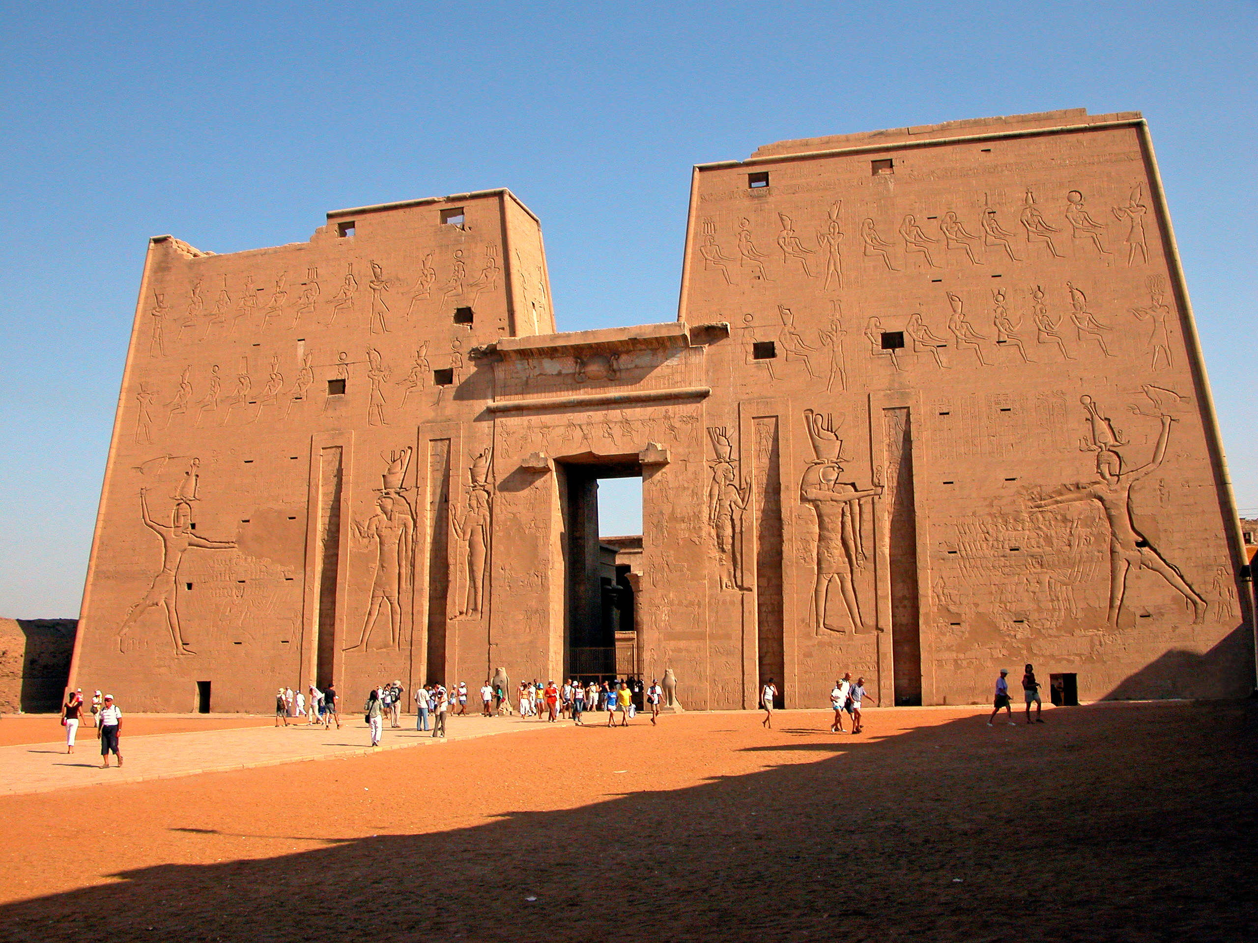 The First Pylon of the Temple of Horus, Edfu, Egypt